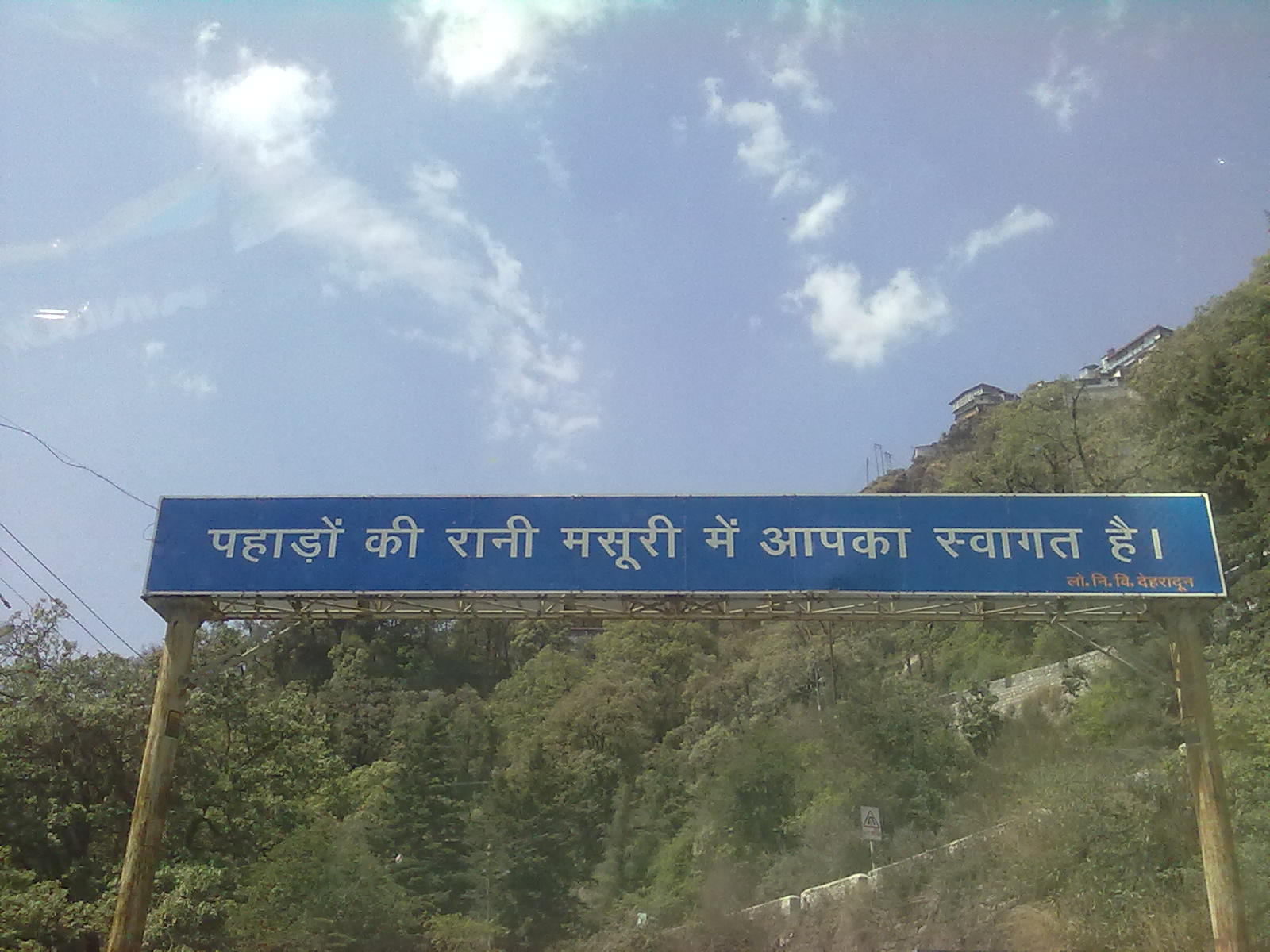 the way of Mussoorie on 16 November.....!!